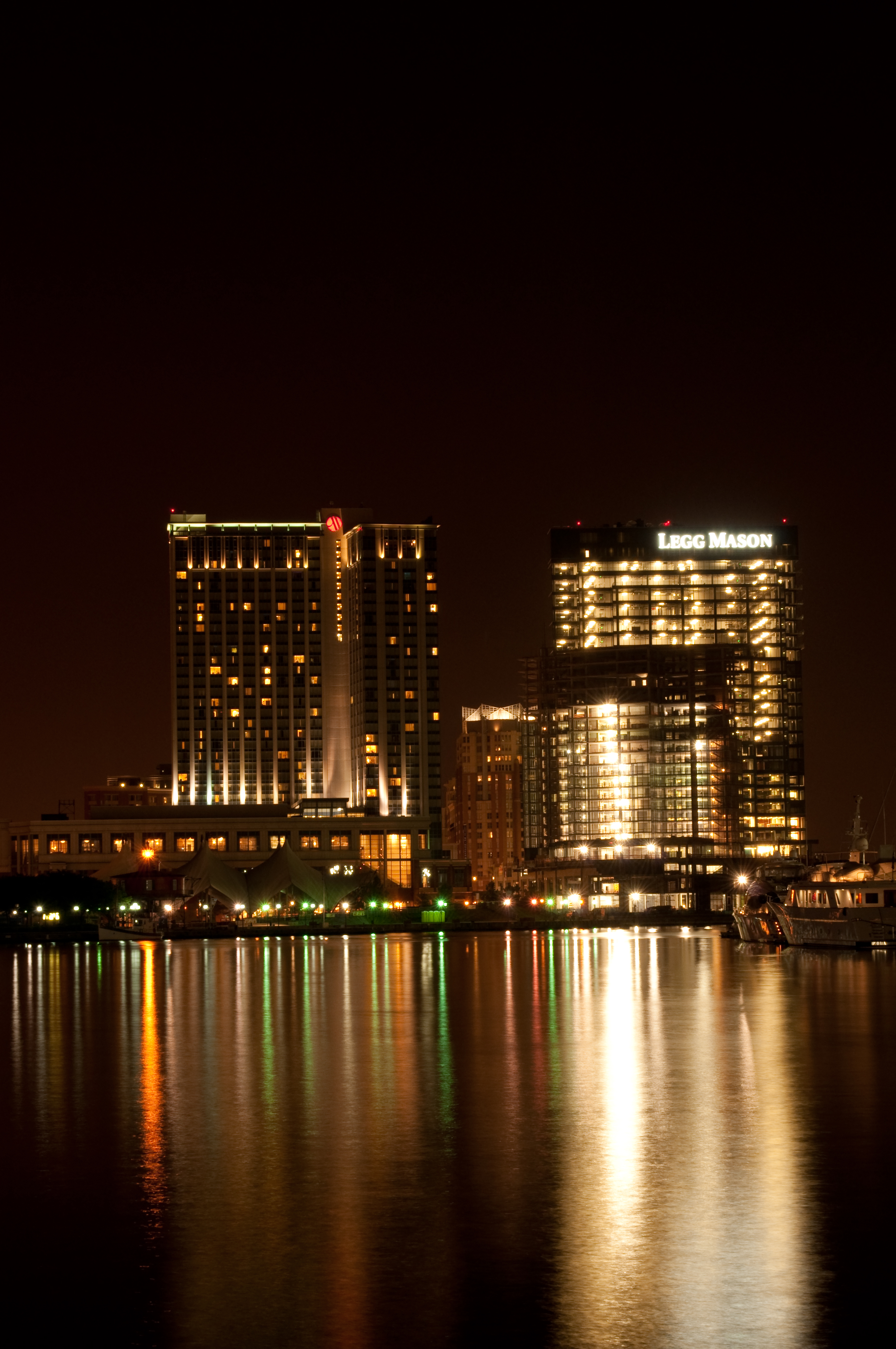 Harbor East viewed from the western side of the Inner Harbor. There is a second Legg Mason building across the harbor which creates quite the light show in the water.